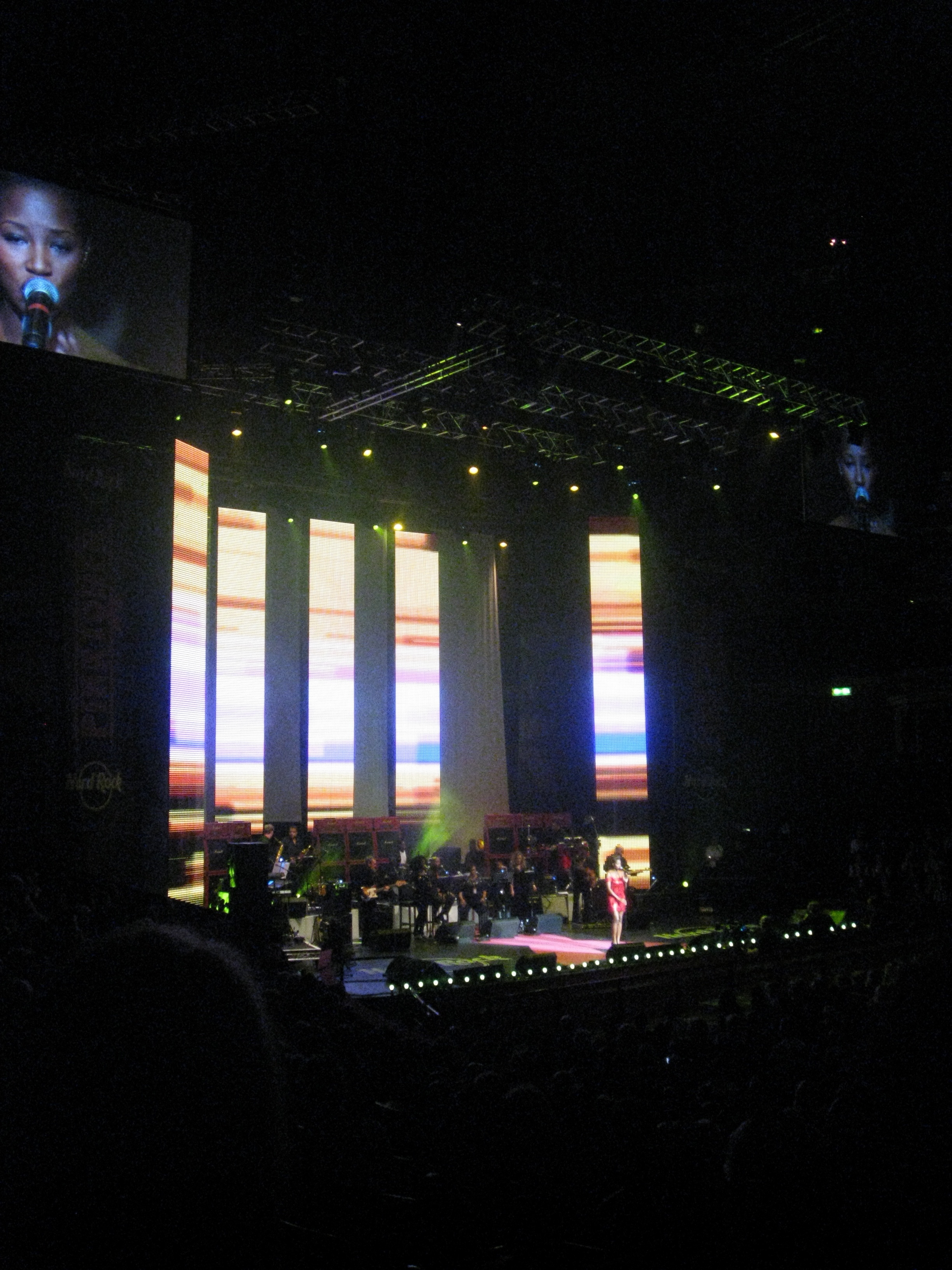 Jamelia